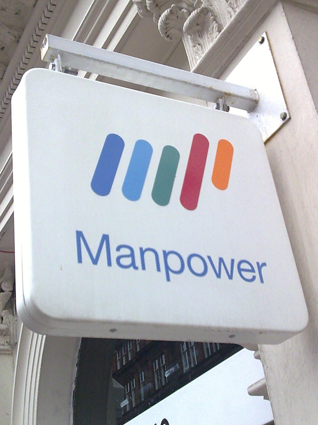 Photograph of branch signage.